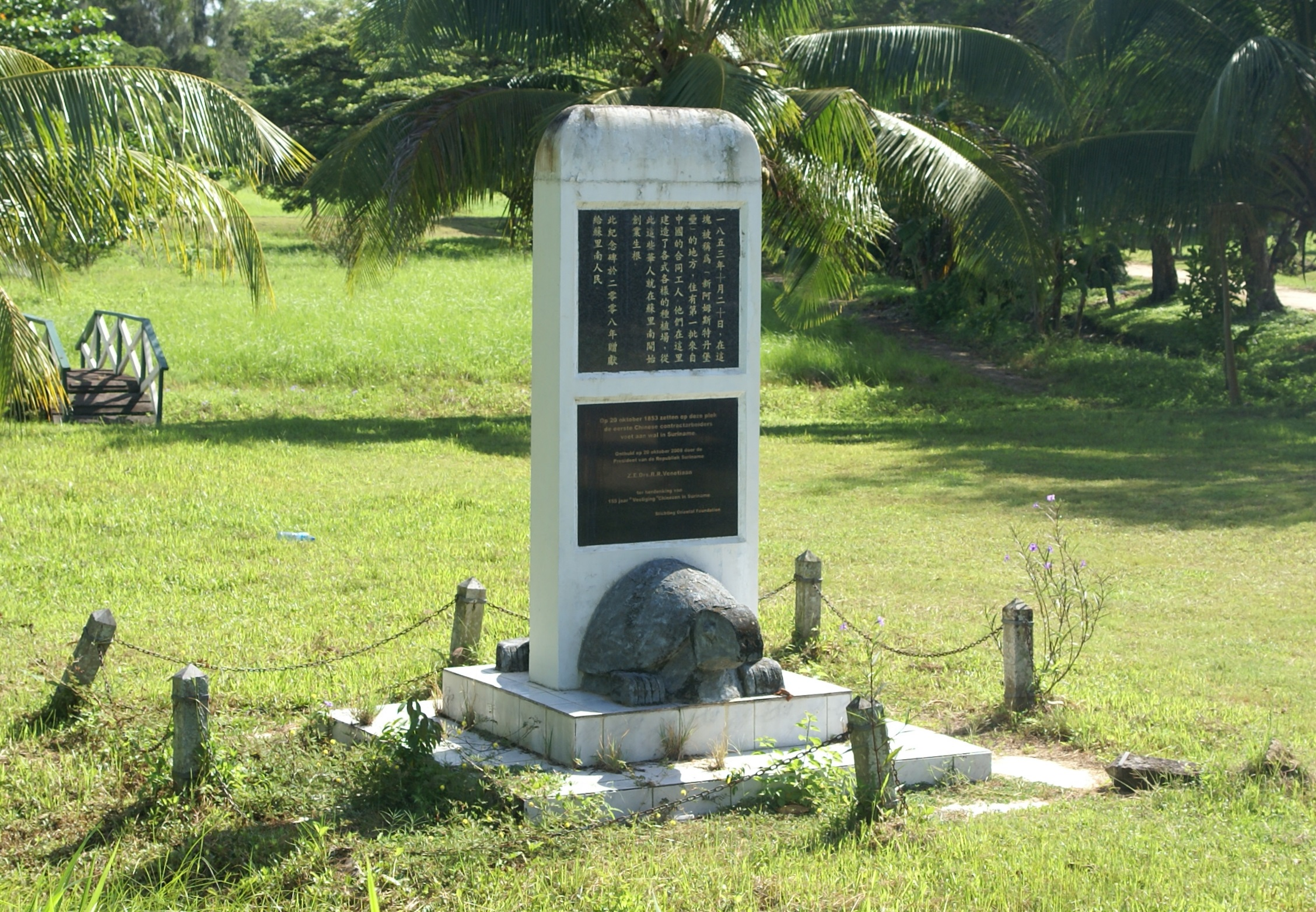 Nieuw-Amsterdam, Surinam. Monument in remembrance of 155 years Chinese immigration. By Paul Woei, 2008.